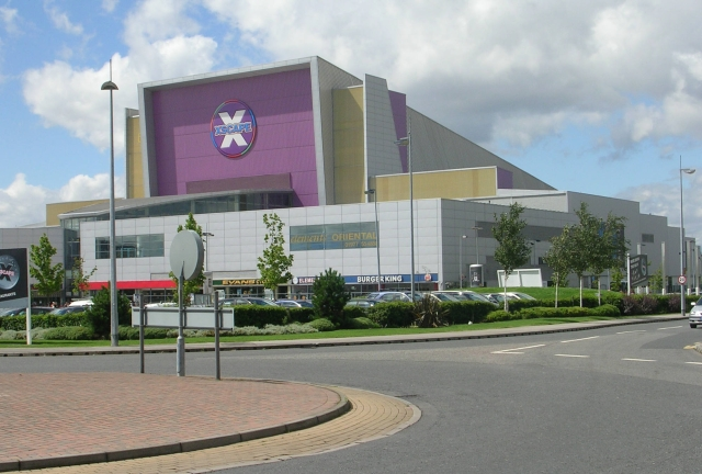 X-scape - Junction 32, Glass Houghton